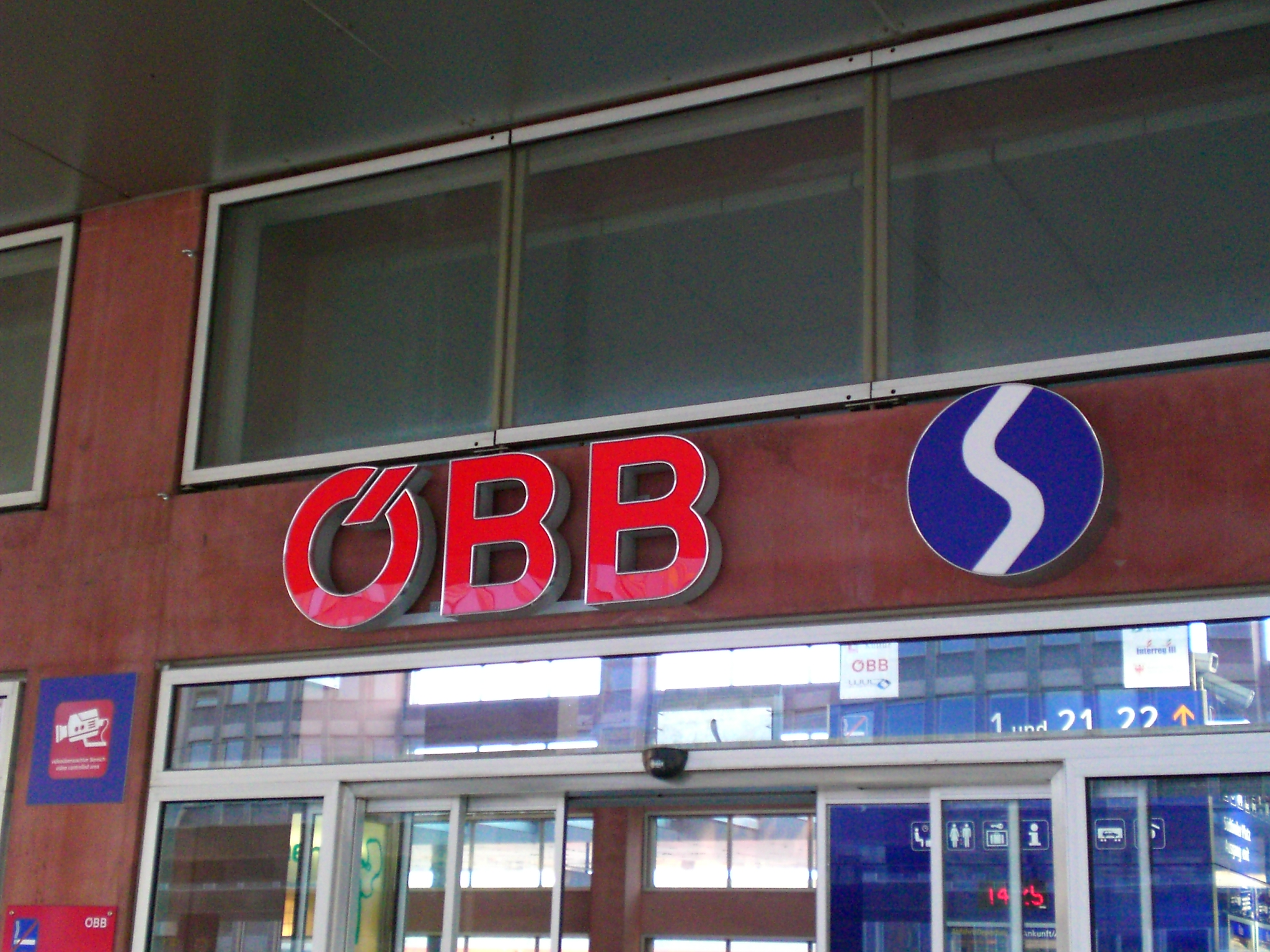 Logos of ÖBB and S-Bahn (faulty) at Innsbruck Hbf (main station), Austria